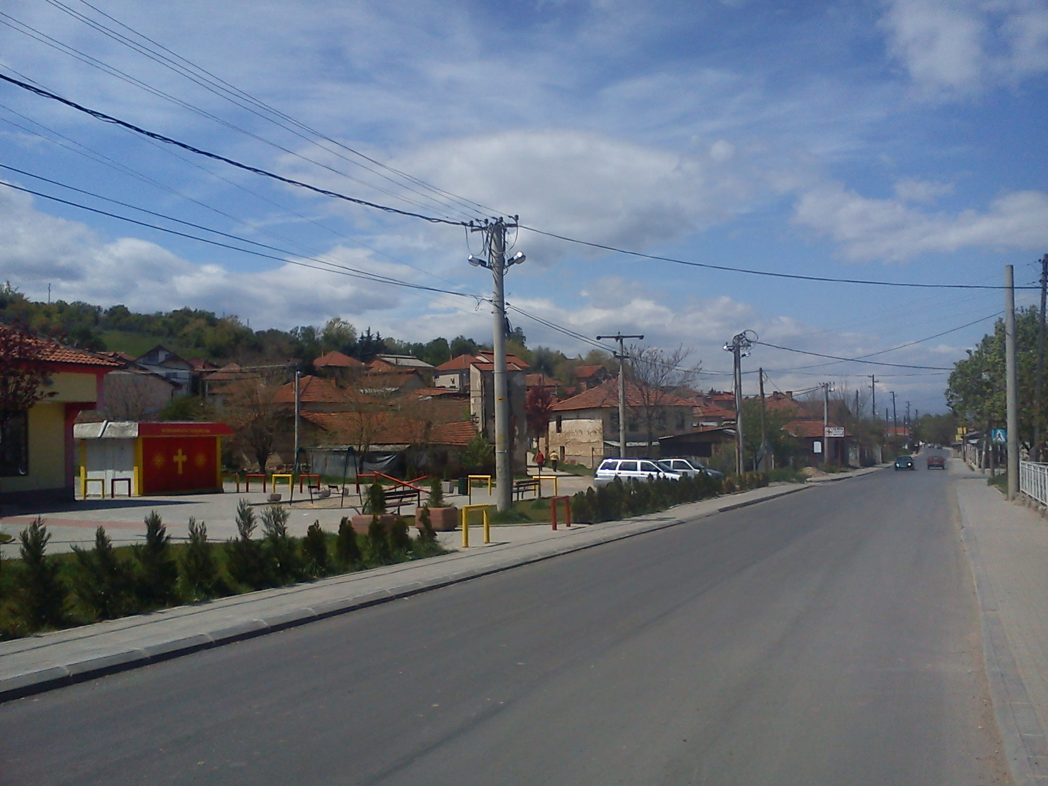 Drachevo, Macedonia